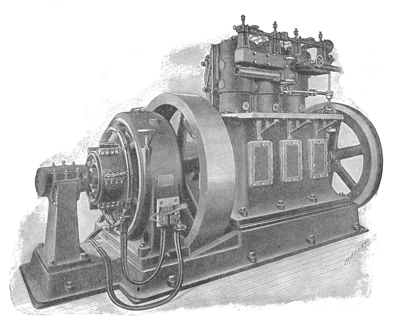 125hp gas engine and dynamo (Rankin Kennedy, Electrical Installations, Vol III, 1903).jpg